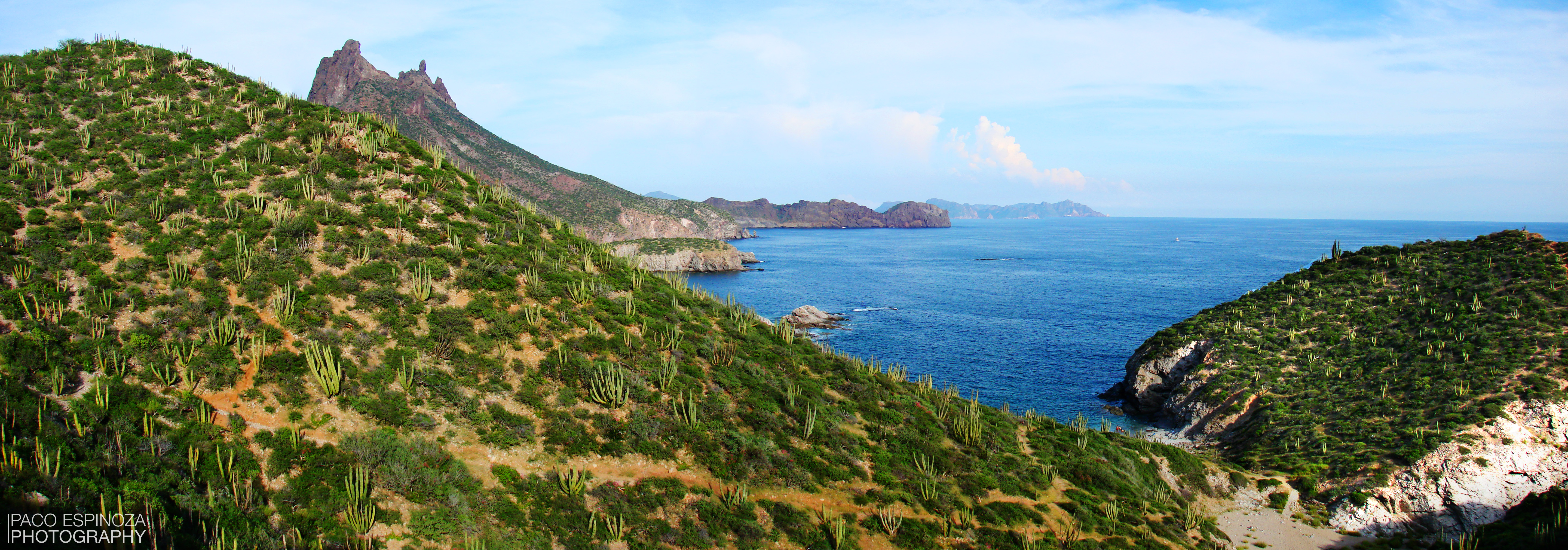 Panorama of San Carlos, Guaymas area — Sonora. View On Black